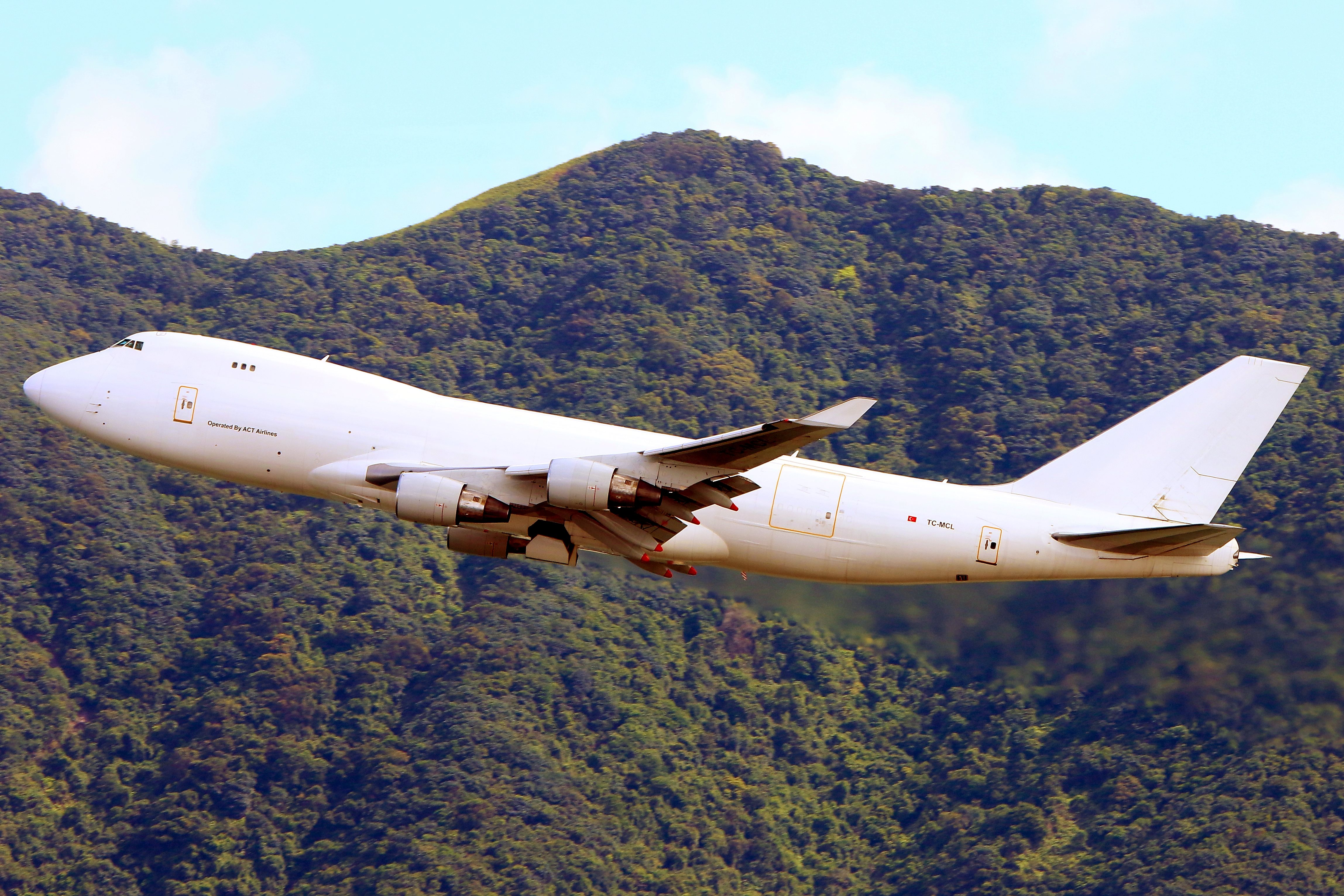 ACT Airlines Boeing 747-412F (TC-MCL) climbs after taking off at Hong Kong Int'l Airport. The aircraft would crash on 16 January 2017 as Turkish Airlines Flight 6491